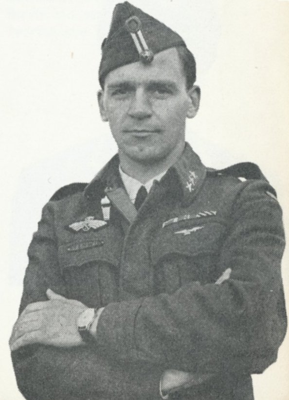 Kåre Stenwig became a navigator at Little Norway in 1941. In 1944 he traded these navigator wings for pilot wings. He later rose to Chief of staff (Generalinspektør) of the Norwegian air force.